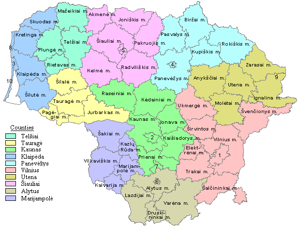 Map showing municipalities and counties in Lithuania.